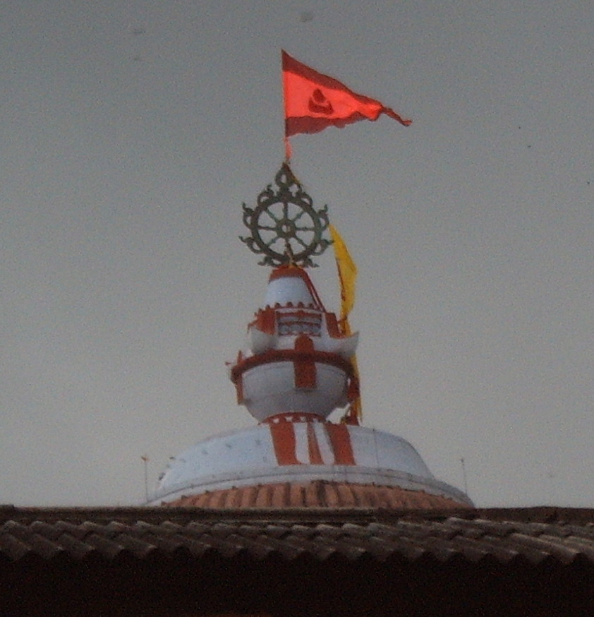 Photograph taken of the Chakra & Flag atop the temple of Jagannath, in Jagannath Puri, 2004.